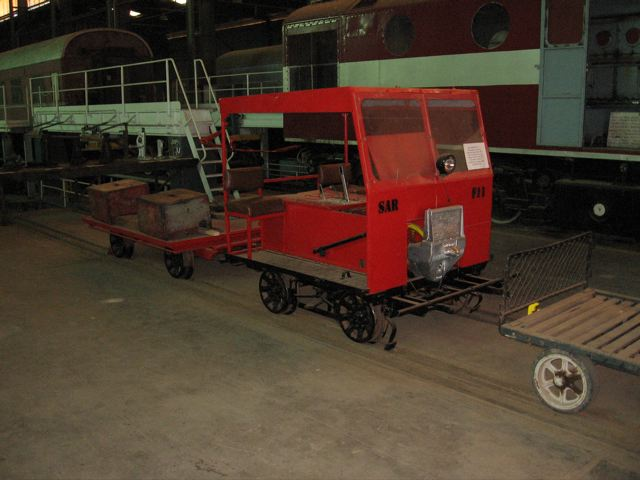 Photo of displays inside Diesel Shop at Peterborough